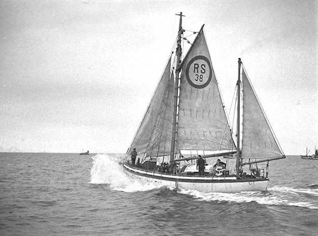 Norwegian rescue boat RS 38 Biskop Hvoslef